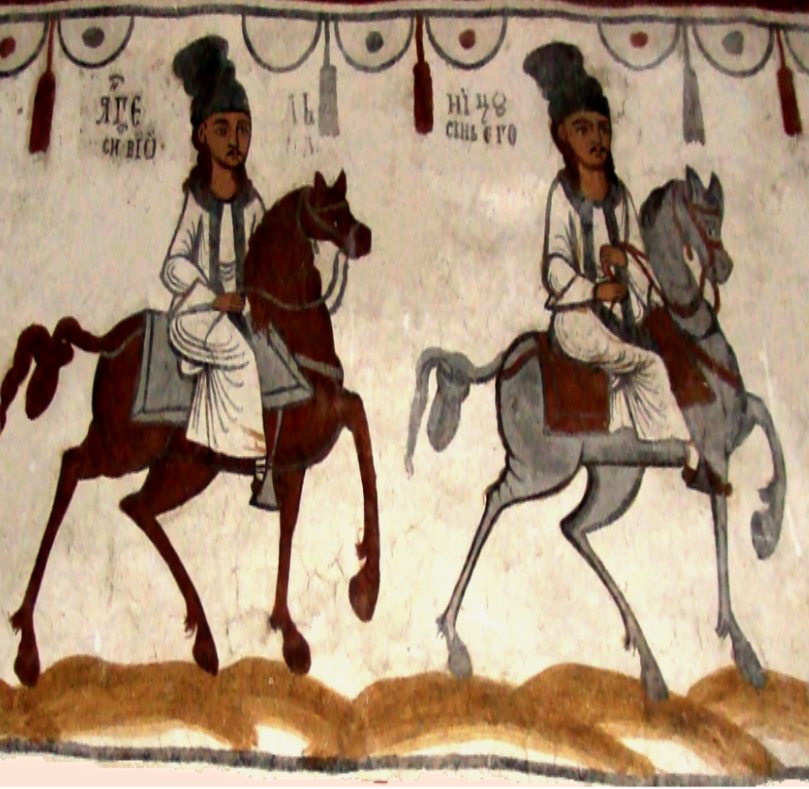 Oltenian riders, identified as peasant soldiers (potecași), see Magazin Istoric, March 1999, p. 4. From a mural at Presentation of Mary Church in Gorunești, Slătioara, Vâlcea County. Derivative of File:RO VL Gorunesti Presentation of Mary church 9.jpg by Țetcu Mircea Rareș.